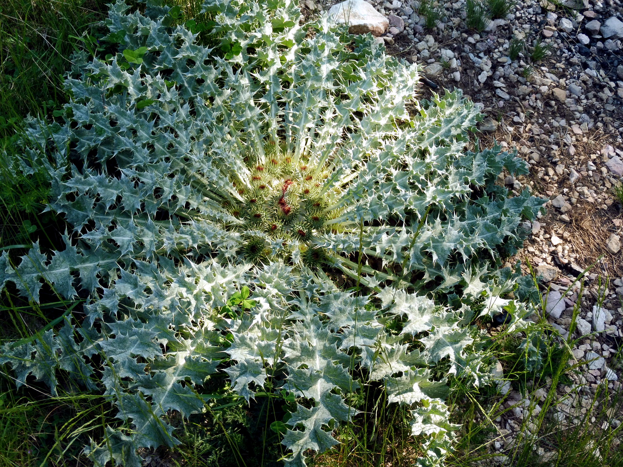 Onopordum acaulon. In la Bòfia, la Coma i la Pedra (Solsonès - Catalunya). To 1.975 m. altitude